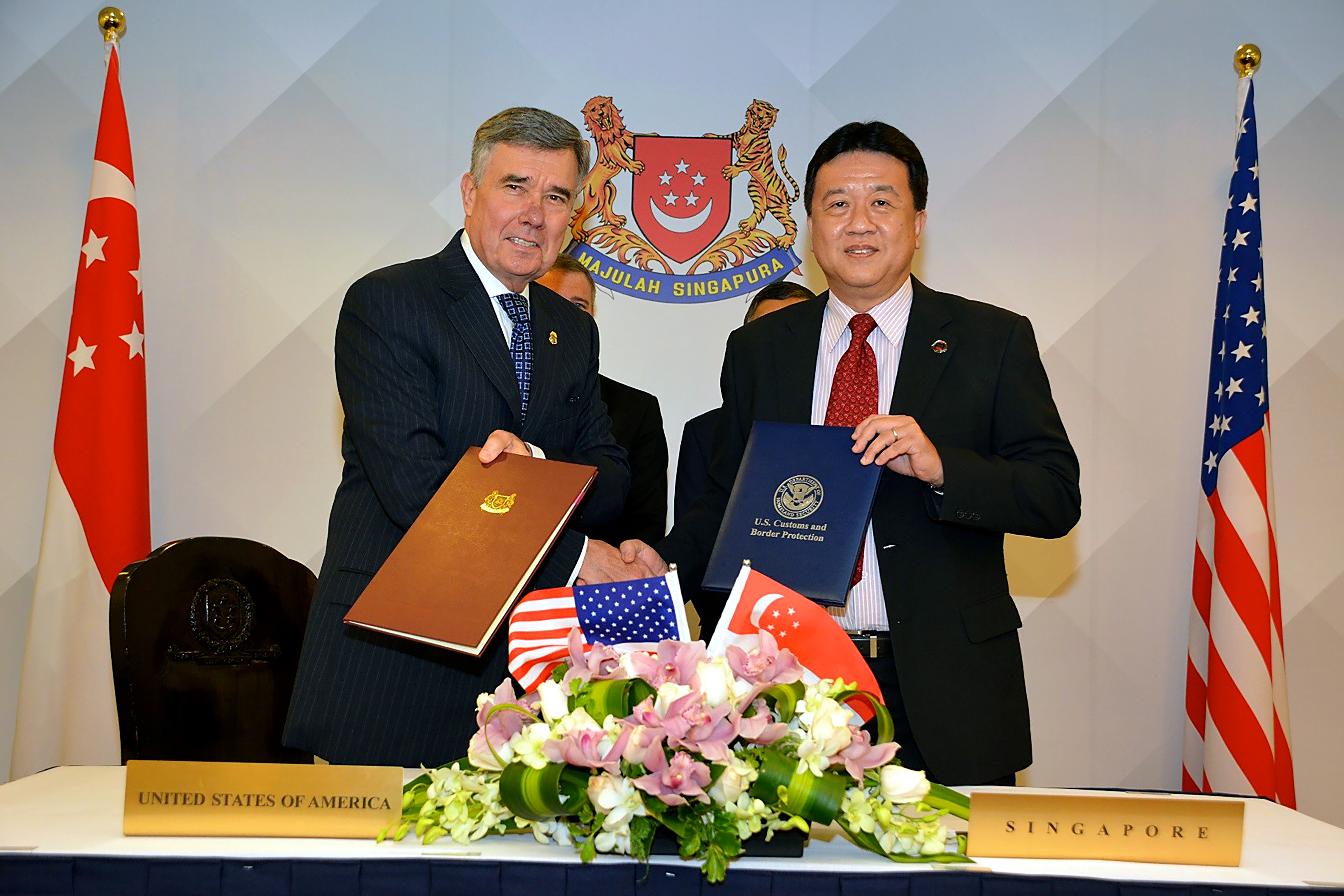 110214: CBP Commissioner R. Gil Kerlikowske and Singapore’s Commissioner of Immigration & Checkpoints Authority Clarence Yeo shaking hands after signing a joint statement on the CBP Global Entry Program. Photos provided by: U.S. Department of State